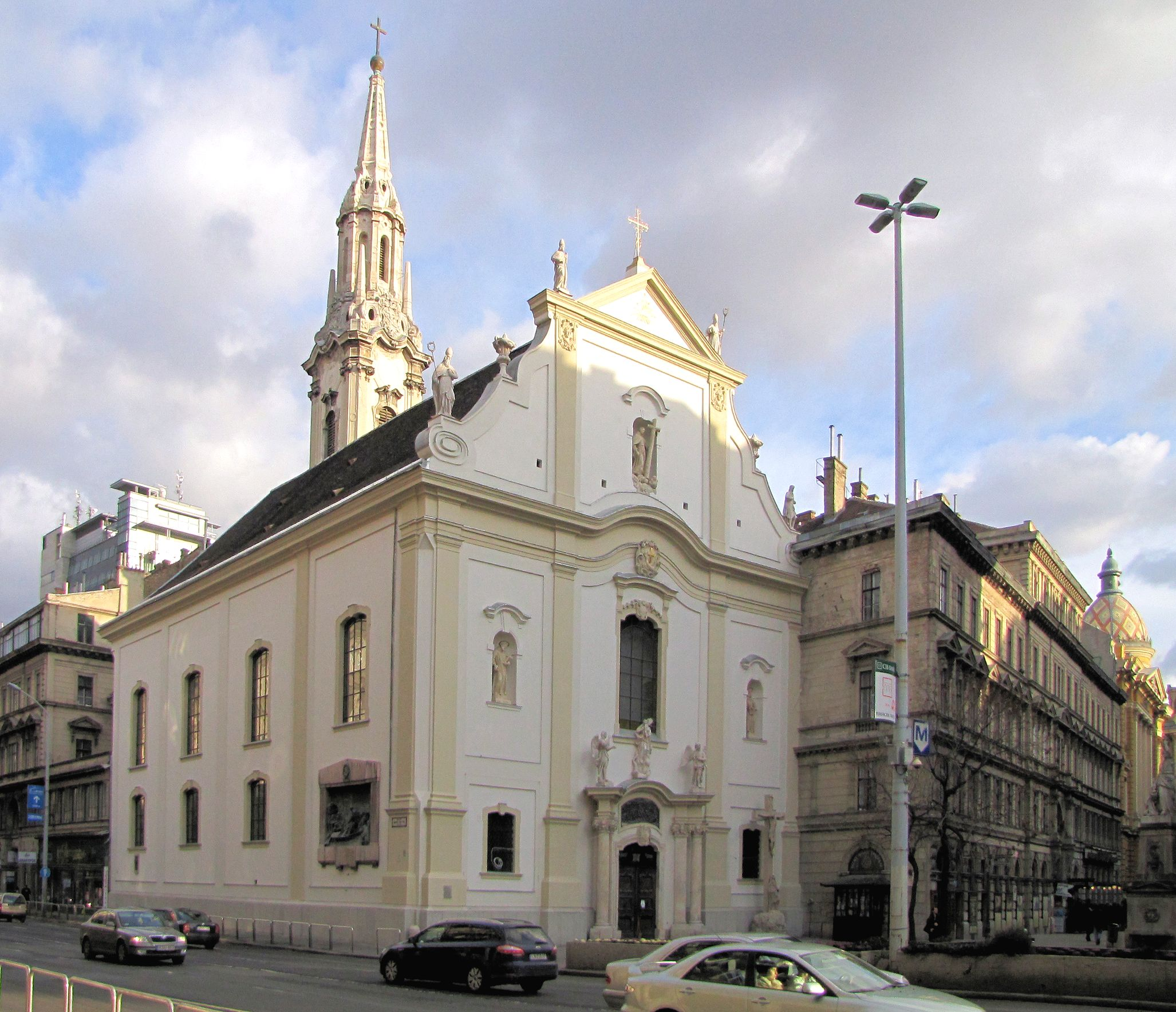 Inner City Franciscan Church, Budapest.